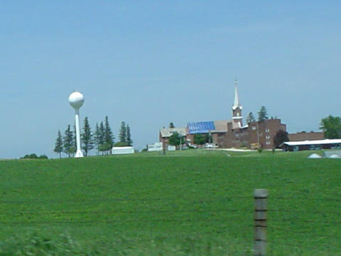 In this photo, the Holy Cross Catholic Church, Holy Cross is shown, as well as the school and the water tower. This photo was taken on May 19, 2004 - just two days after the church suffered serious damage when part of its roof was ripped off in a storm. A temporary roof that was placed over the damaged sections of the church the day after the storm is visible in this photo. The photo was taken just south of the church from US Highway 52. It is a photo that I had taken.